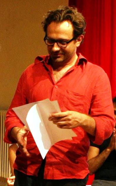 Gianpiero Borgia